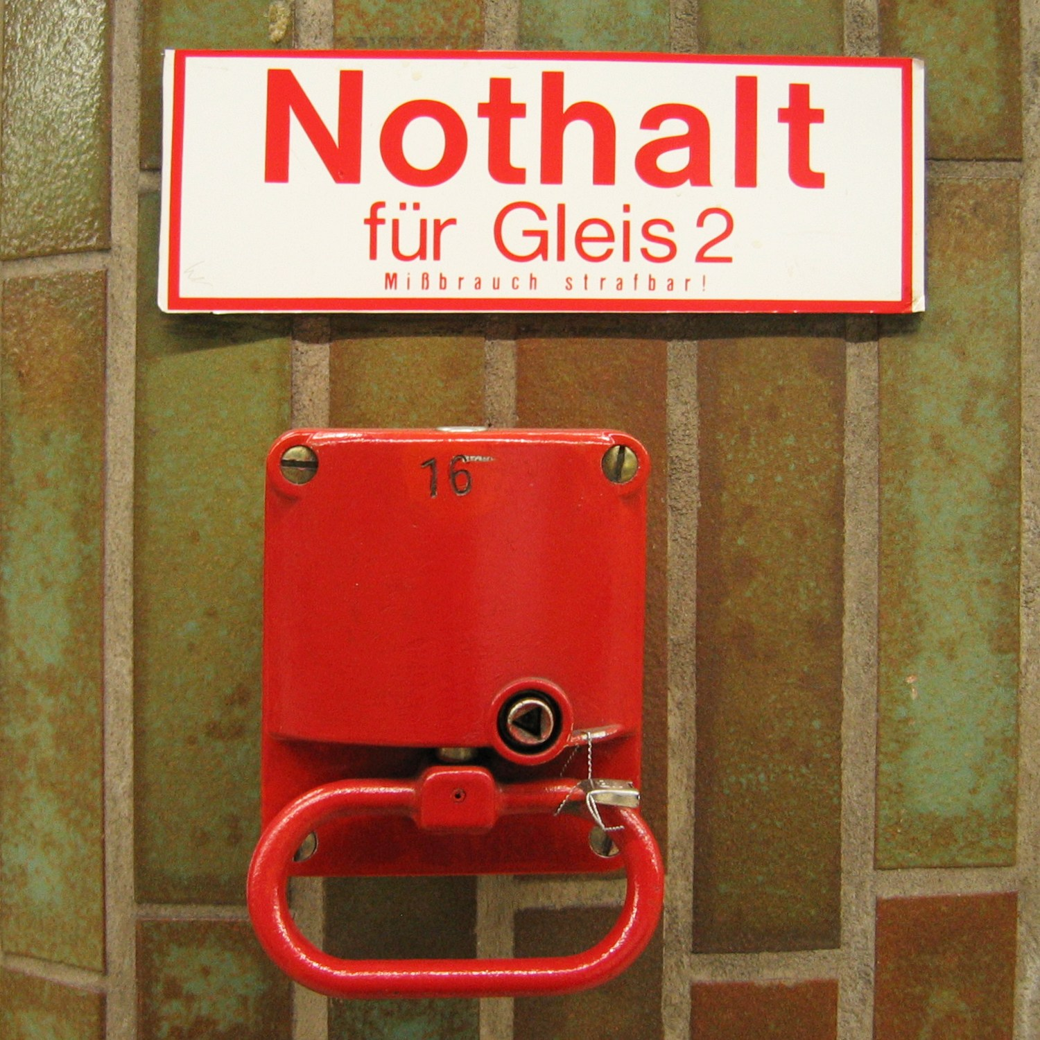 Munich subway emergency brake in a station